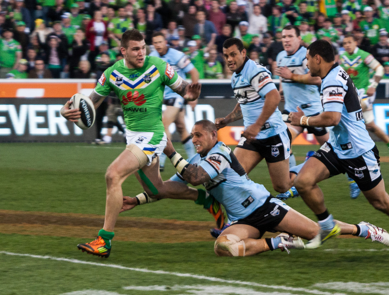 Australian rugby league footballer playing for the Canberra Raiders in an NRL game against Cronulla-Sutherland Sharks.